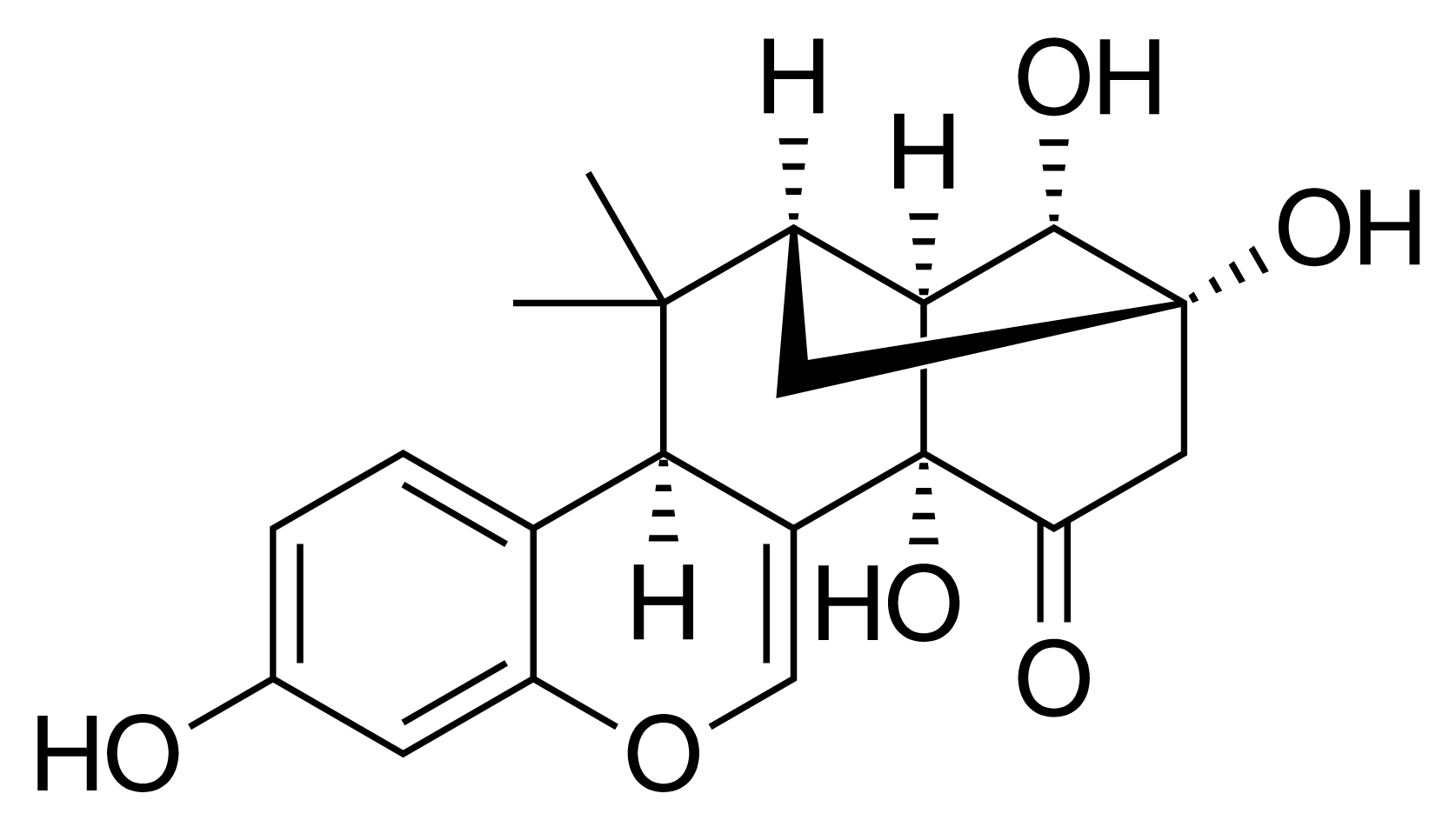 chemical structure of miroestrol